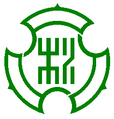 Former Sugito Saitama chapter